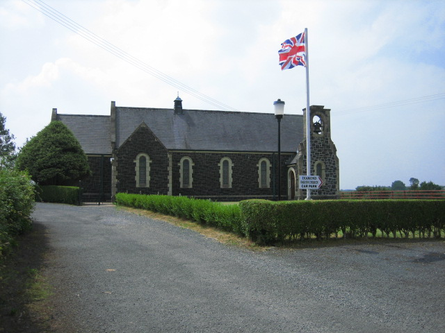 St Paul's Church, Parish of Diamond Grange. Church of Ireland parish church.